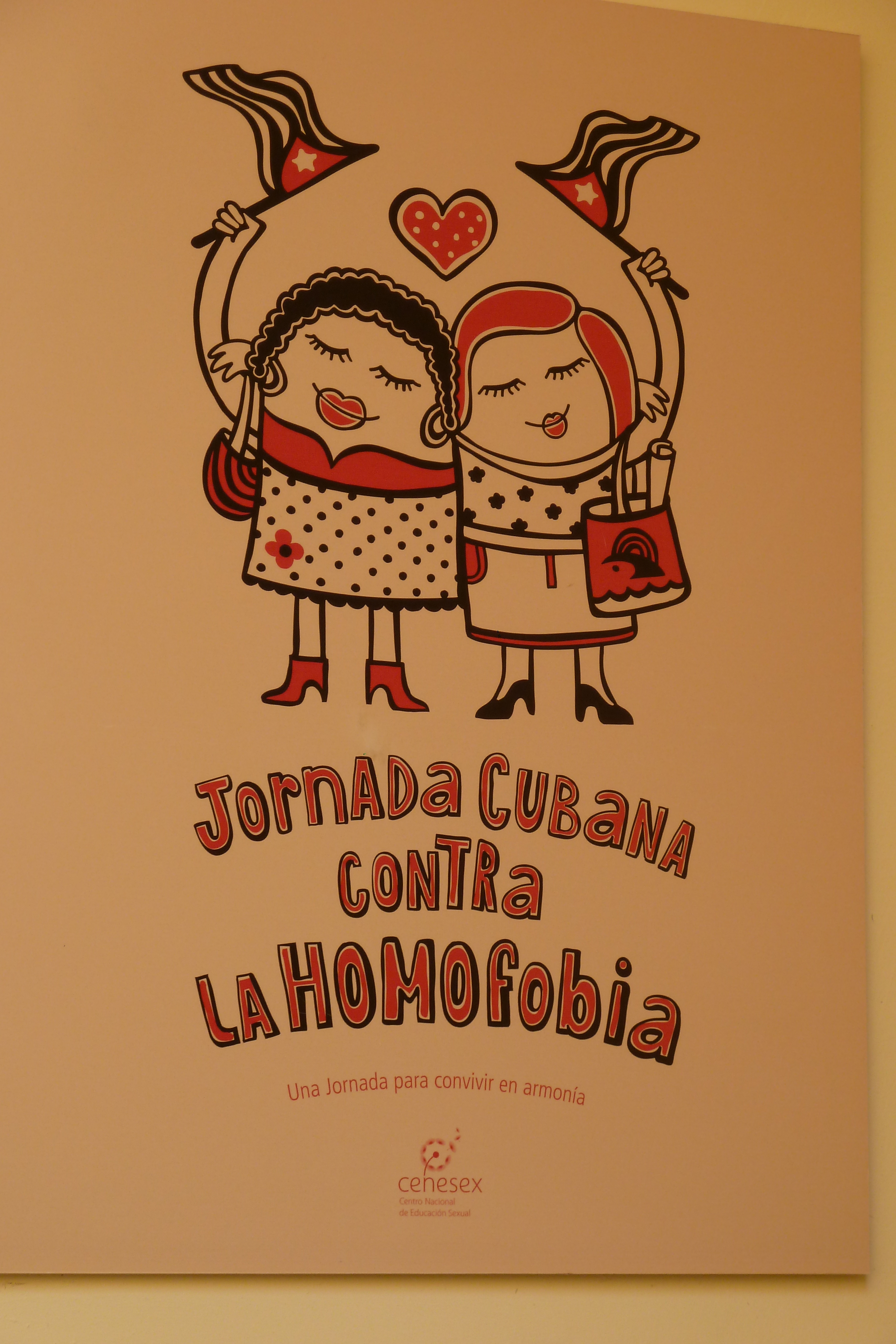 Poster "Day Against Homophobia" (CENESEX)